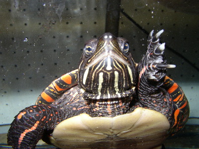 Frontal shot of painted turtle